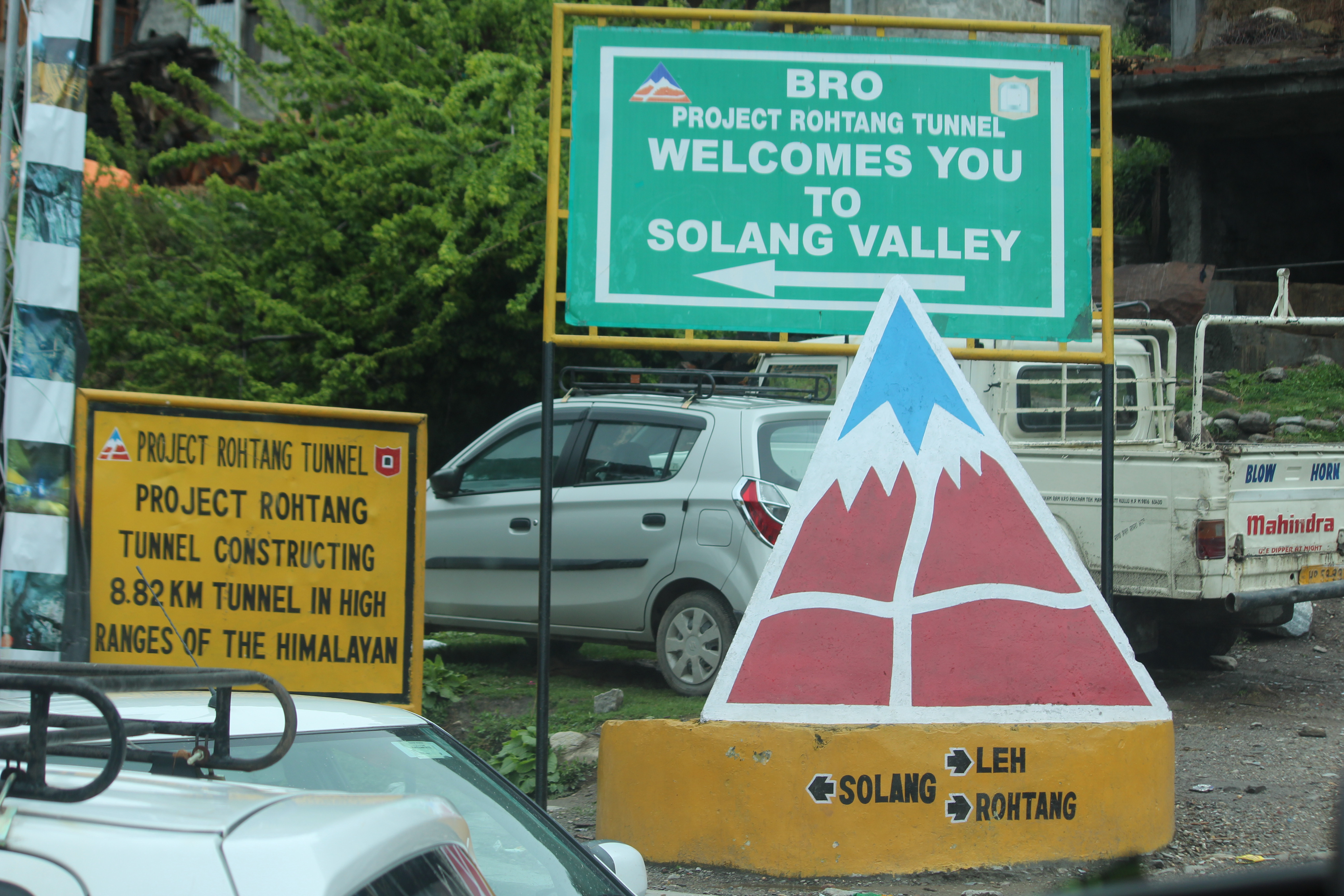 Direction board at Solang, showing the roads to Rohtang and Leh